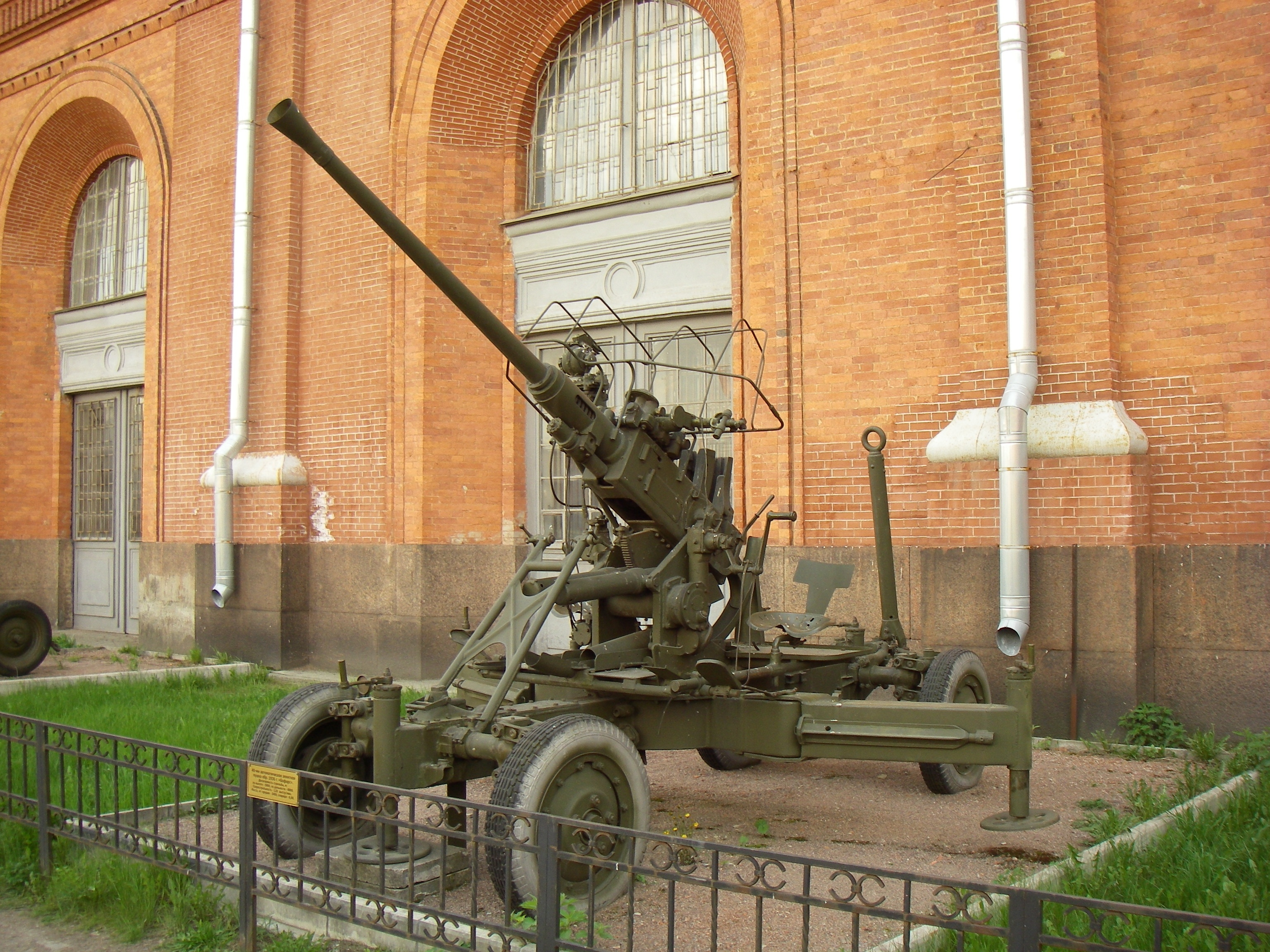 40-mm automatic anti-aircraft gun «Bofors» in Saint Petersburg Artillery museum